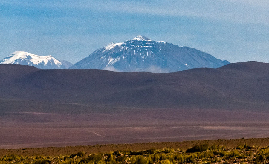 The Cerro Paniri stratovolcano, seen from the south, with in the background the summit of the San Pablo volcano.